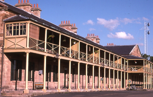 Victoria Barracks, Paddington, Sydney, (Kodachrome slide scanned at low res) photo by Sardaka 02:55, 27 July 2007 (UTC)